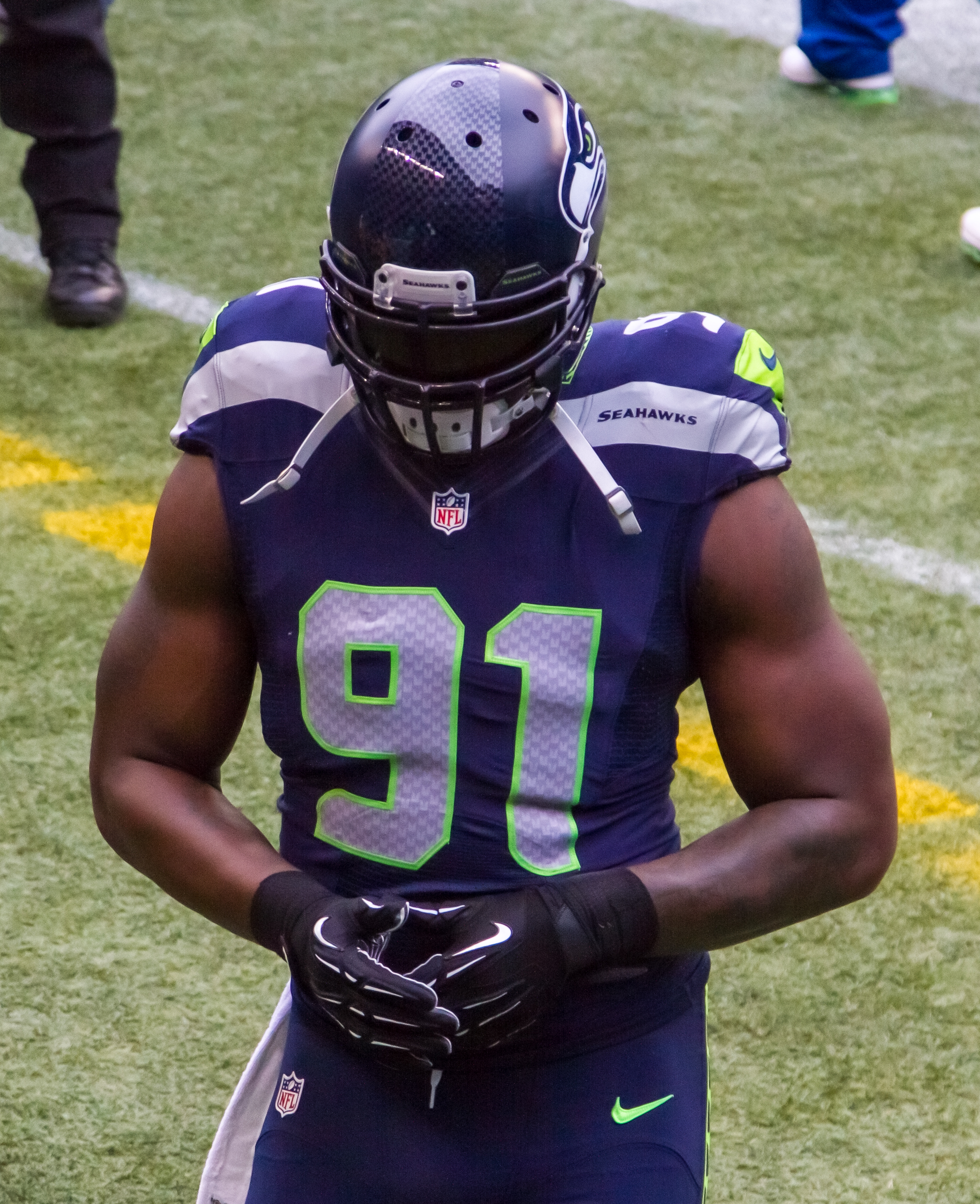 Chris Clemons, Seahawks vs Rams 12.29.13